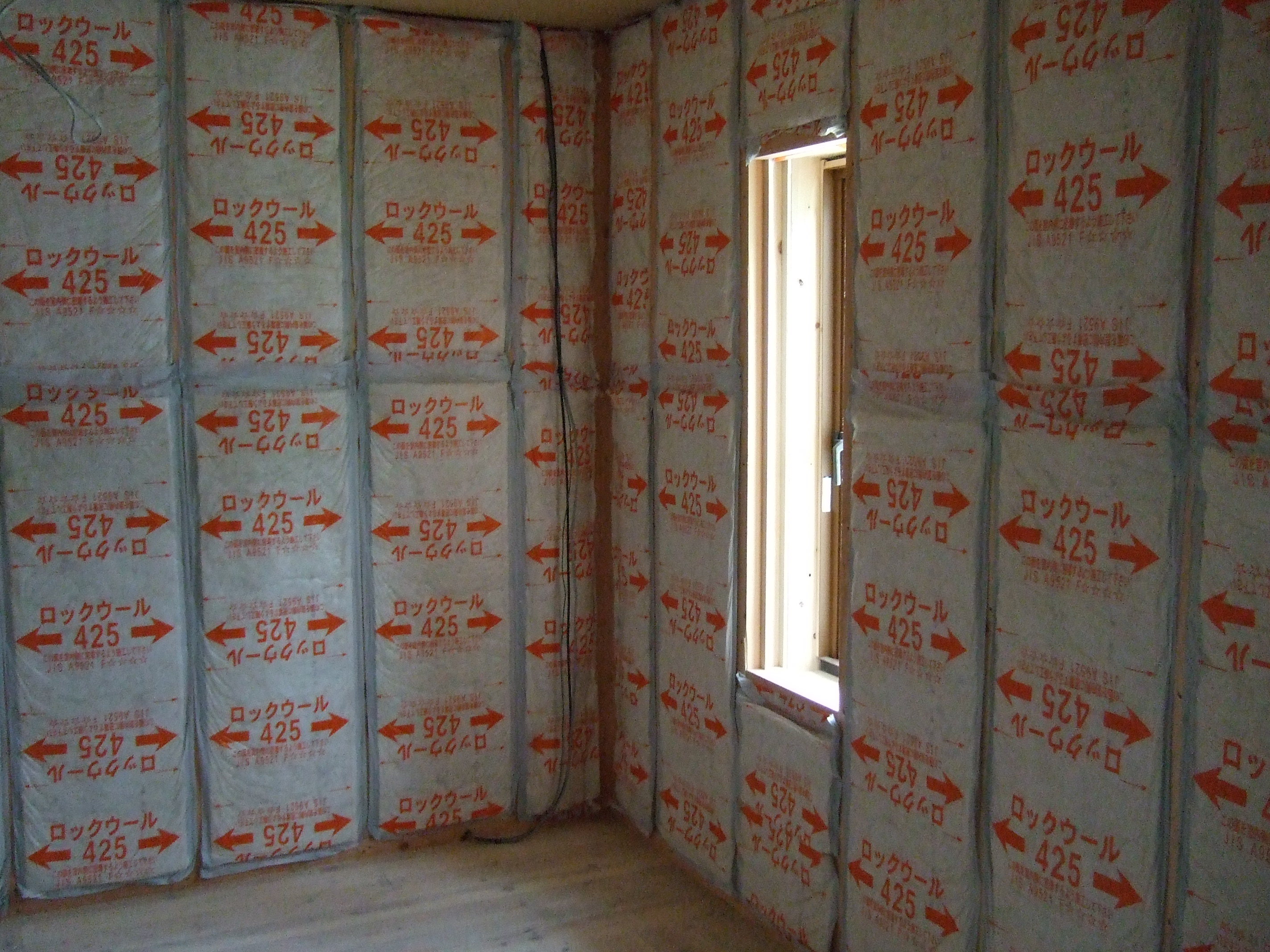 rockwool;slagwool；Soundproof room